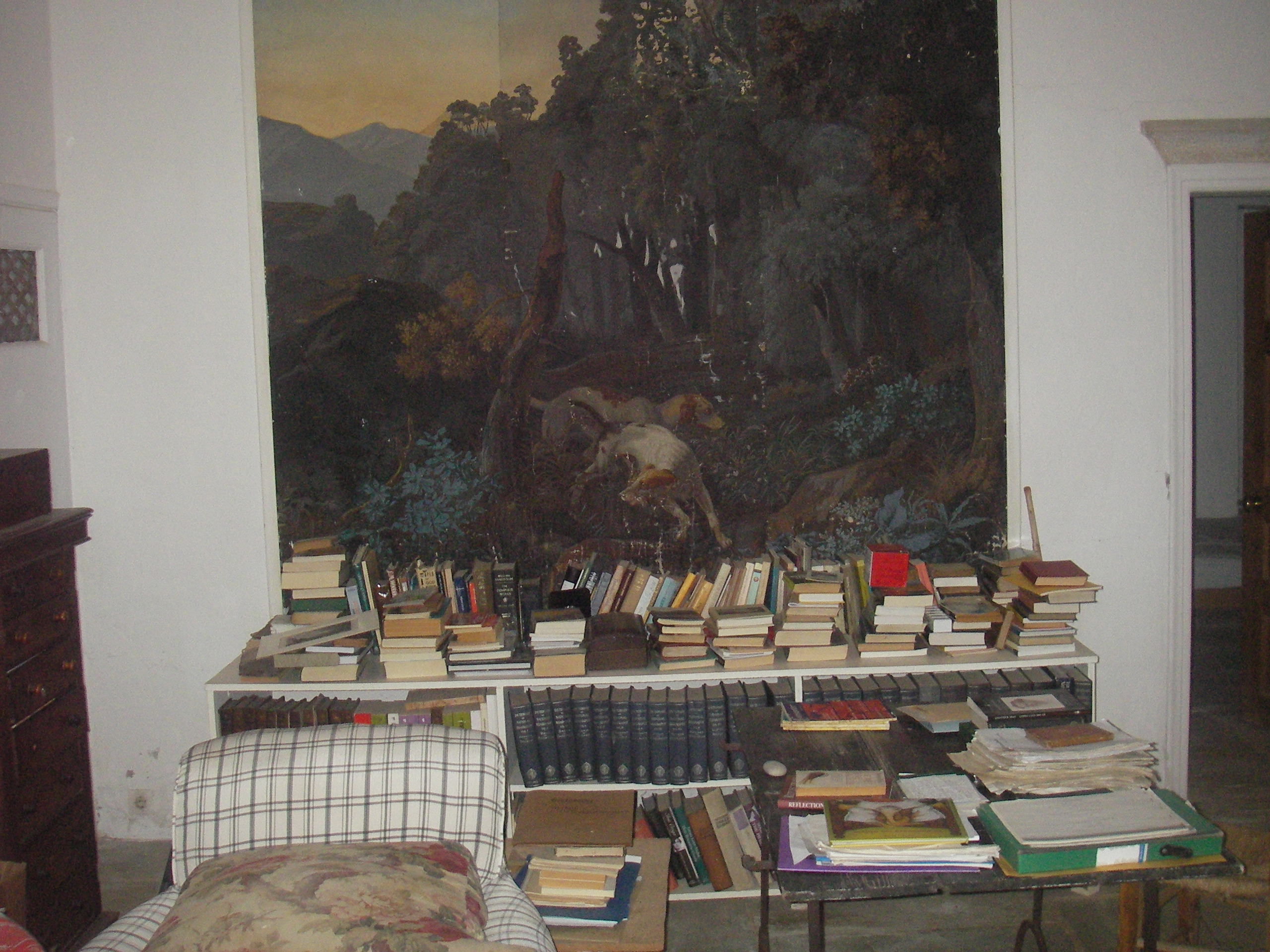 Photo (by me, R. de Salis, Rodolph (talk) 22:26, 23 November 2014 (UTC)) of Sir Patrick Michael Leigh Fermor's office, c. 2009, view out of French wallpaper.